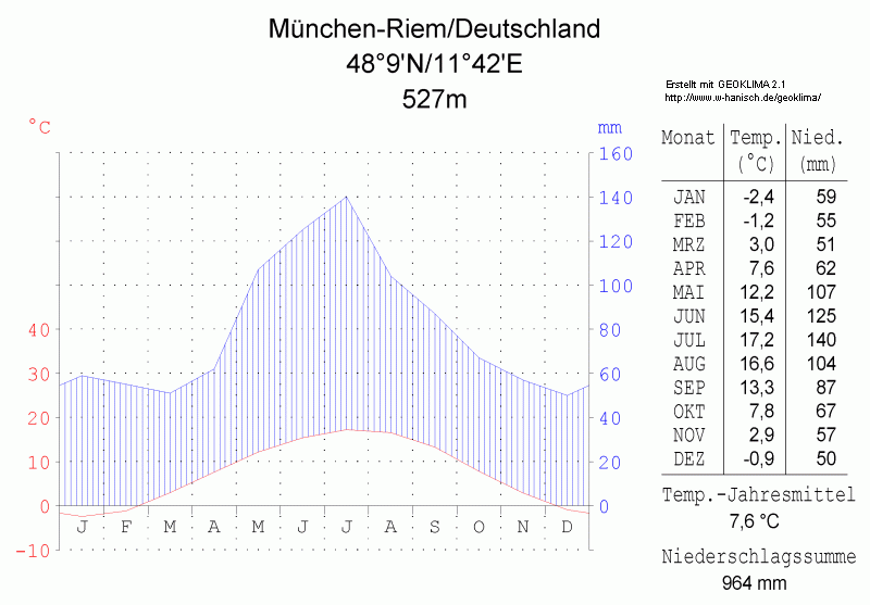 climate chart in the format by Walther and Lieth, metric, °Celsisus and millimeters, made with Geoklima 2.1